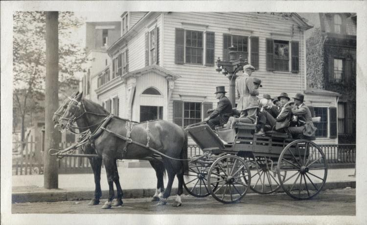 View of the exterior of Mory's club, New Haven, Connecticut, circa 1914. Image courtesy of the Brian K. Welch Photograph Collection, Yale University Manuscripts & Archives Digital Images Database.